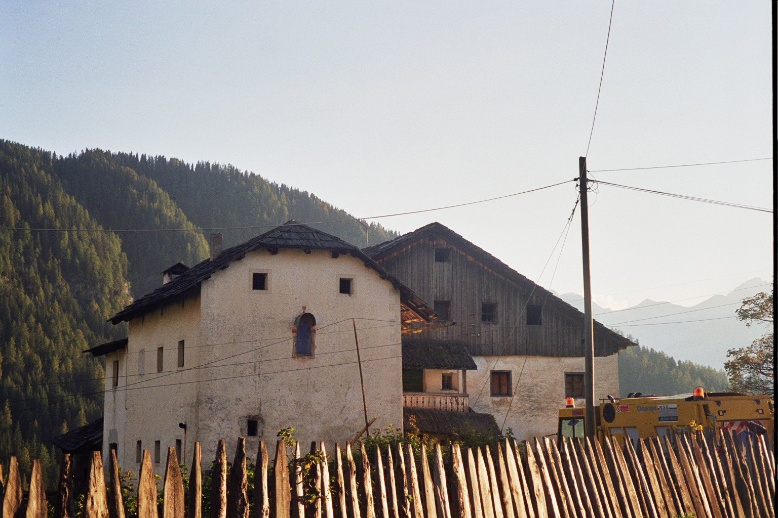 South Tyrol, Dolomites, La Val, Miribun, empty peasant house. 2001